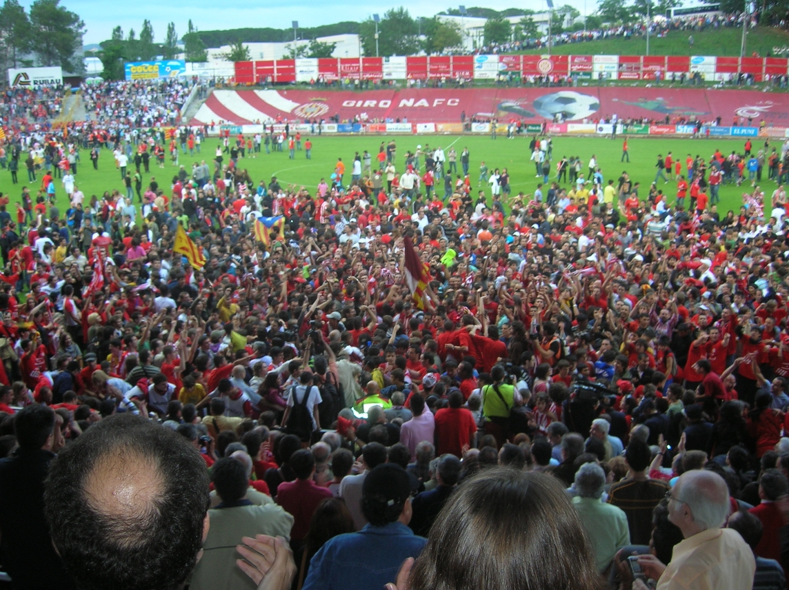 Girona FC fans celebrate the team's promotion to 2nd Spanish league.